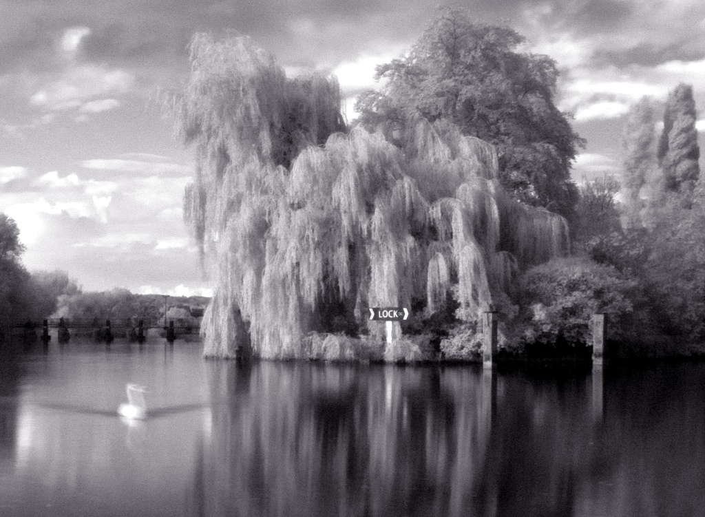 Sonning Lock, on the River Thames at the village of Sonning, England.